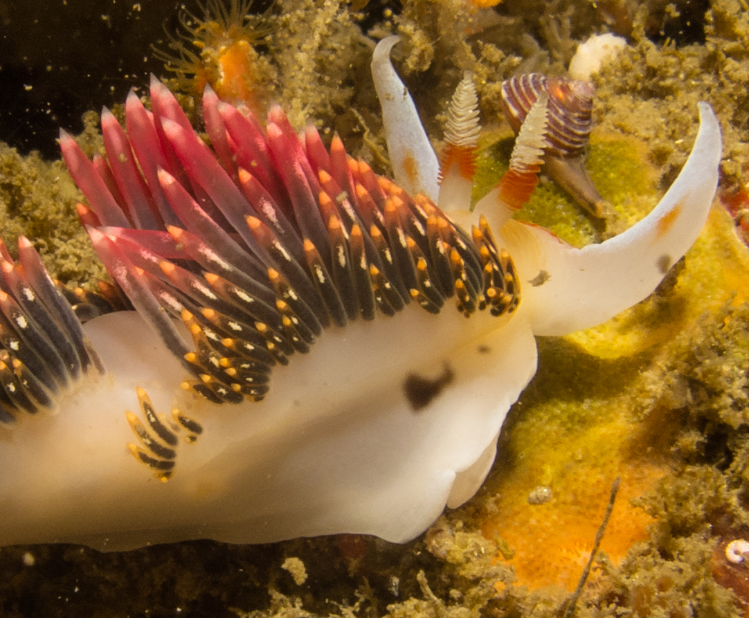 Phidiana hiltoni, Carmel, California